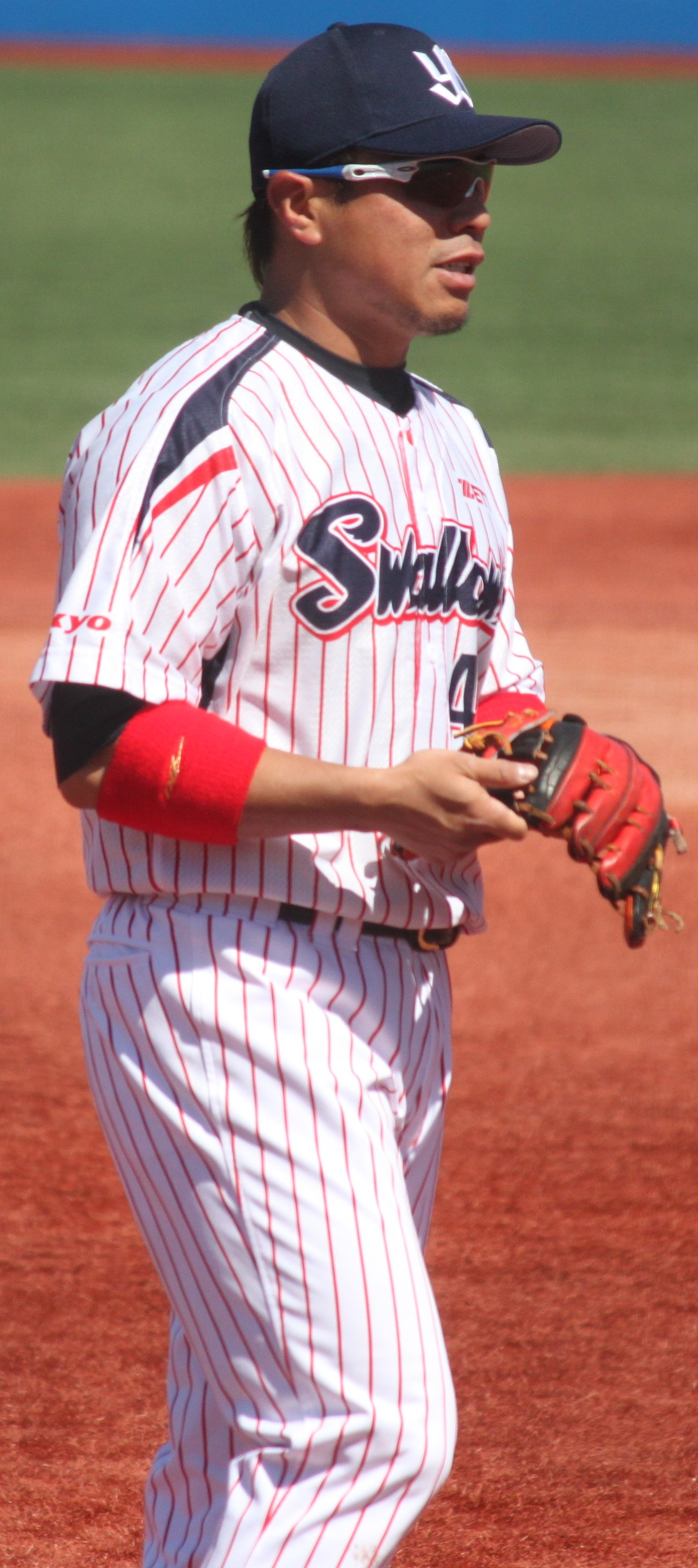 Akinori Iwamura, infielder of the Tokyo Yakult Swallows, at Meiji Jingu Stadium.